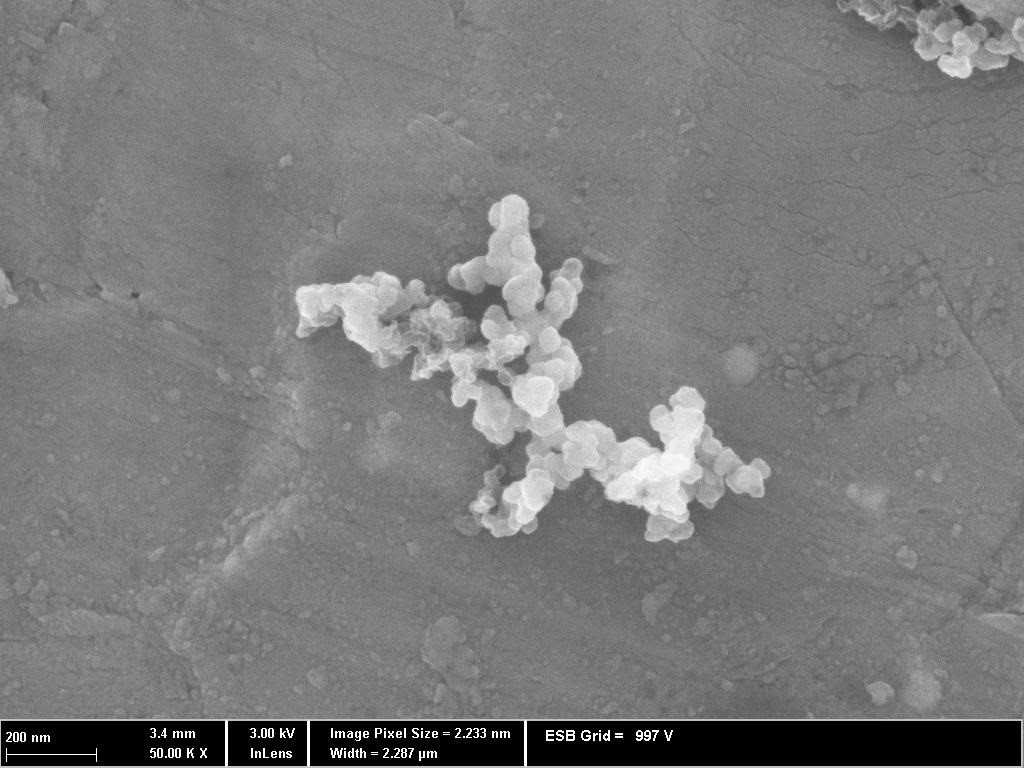 CHEZACARB structure (pictures from SEM, taken by PIB, there is no reference to an official article)